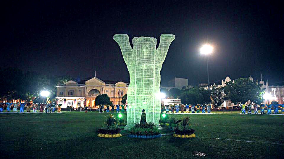 United Bears in Georgetown, Penang (Malaysia)